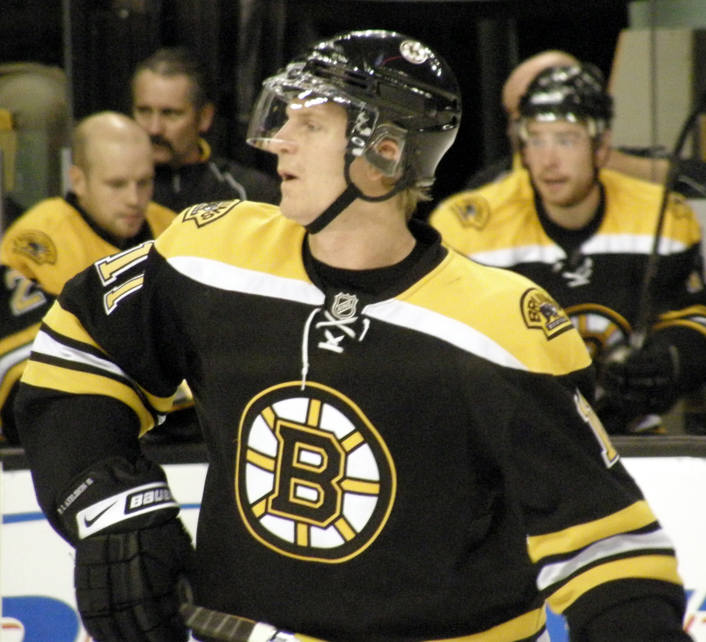 #11 P.J. Axelsson, left wing for the Bruins